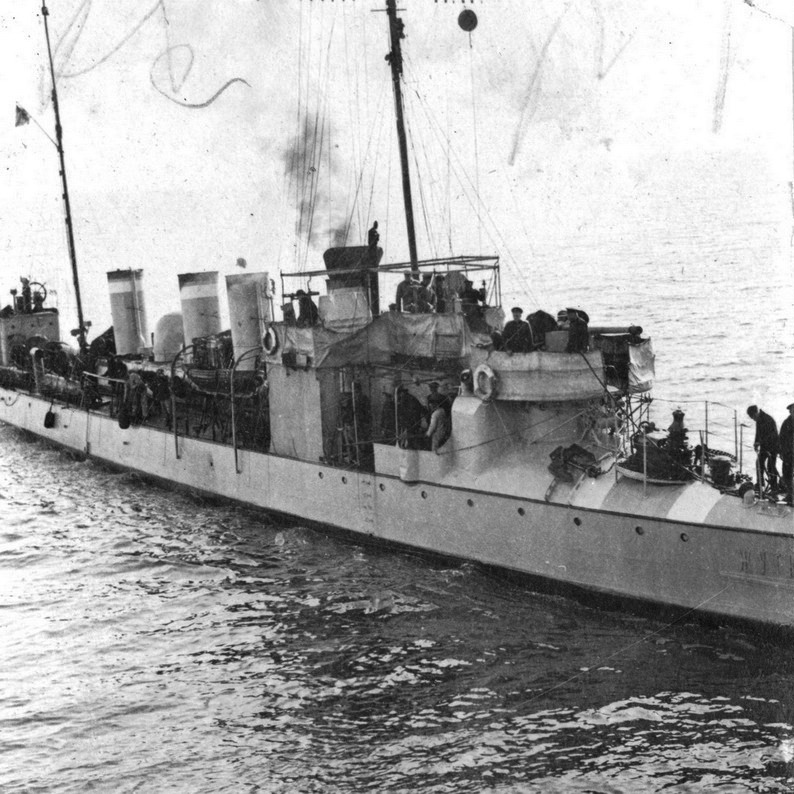 The Imperial Russian squadron torpedo boat (destroyer) «Zhutkiy» in 1915.